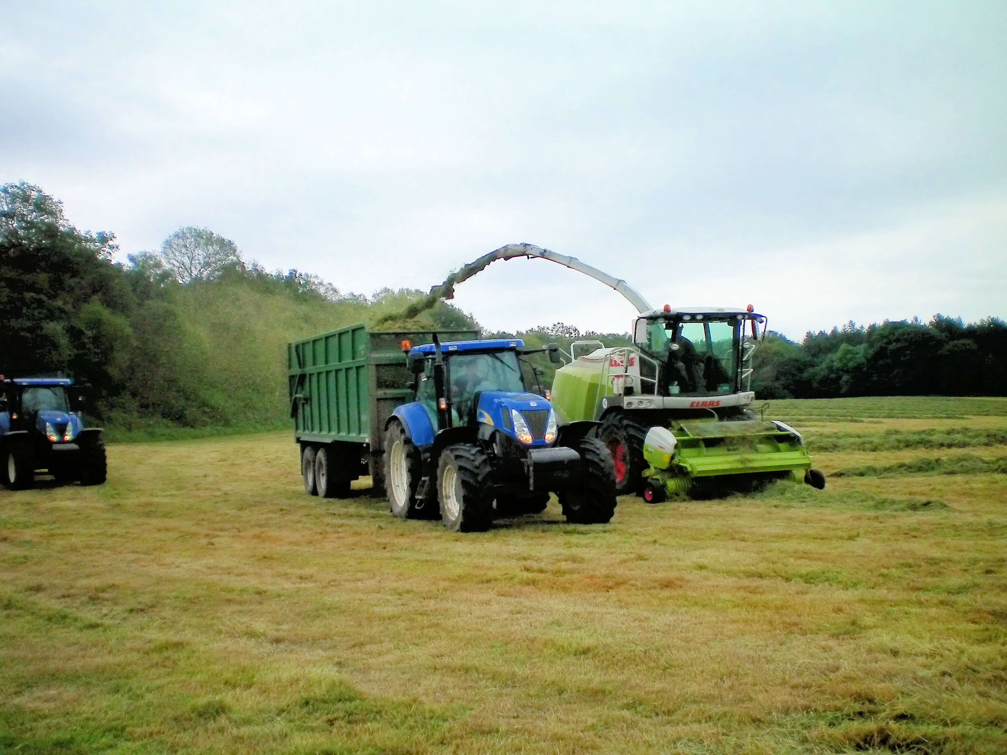 Claas Jaguar 970 forage harvester chopping grass for silage. West Sussex, England. Two New Holland tractors with trailers.